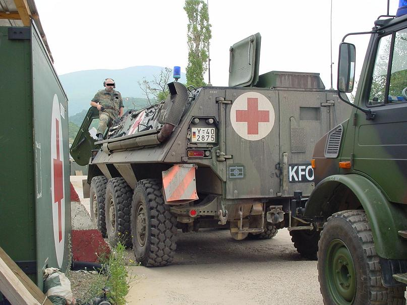 APC Fuchs 1A7 Medical Vehicle with modular armour protection system